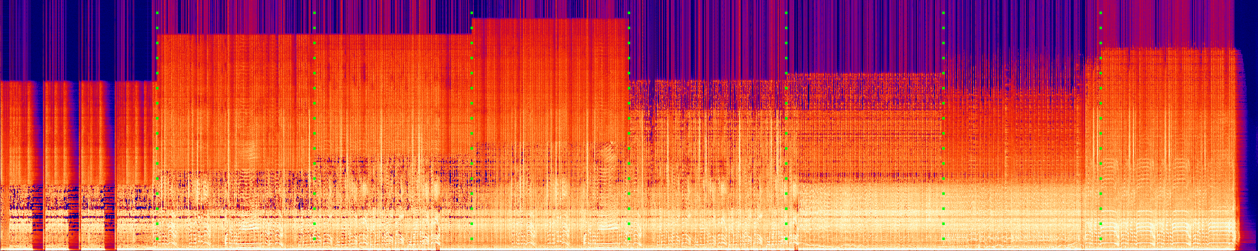 Spectrogram showing compression artefacts from lossy AAC encoding (encoder: iTunes 10.6.3) at different average bitrates from 31.8 to 158 kbit/s in a recording of Jono Bacon's Metal version2 of the Free Software Song)